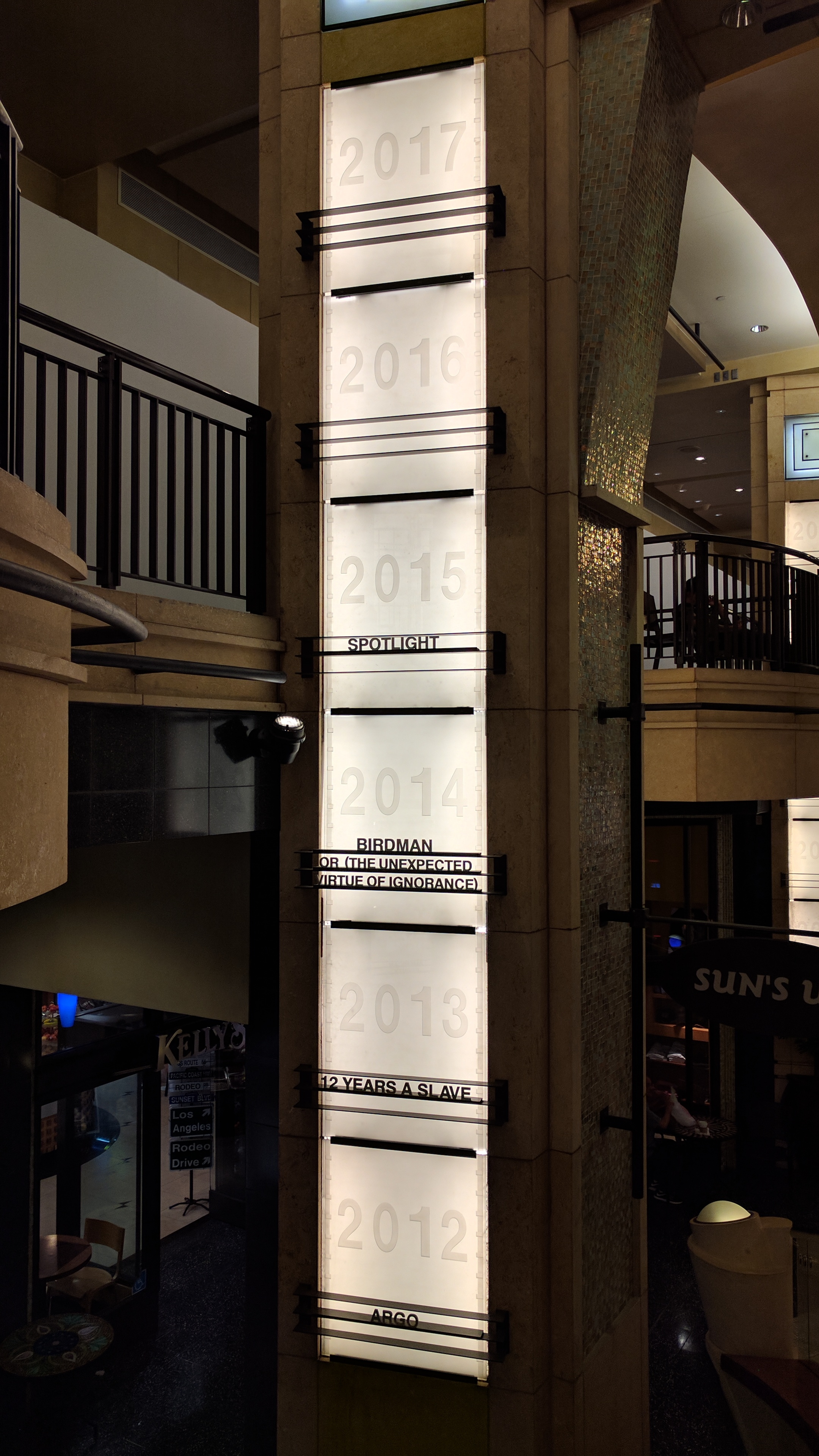 Wall of oscar winning films in Dolby theatre